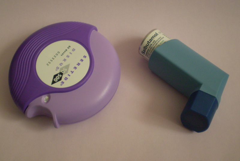 astma medication